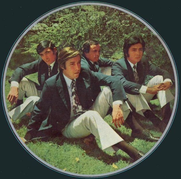 Cover (portada) Album "Canción para una mentira", folk group Los del Suquía, from Córdoba, Argentina.